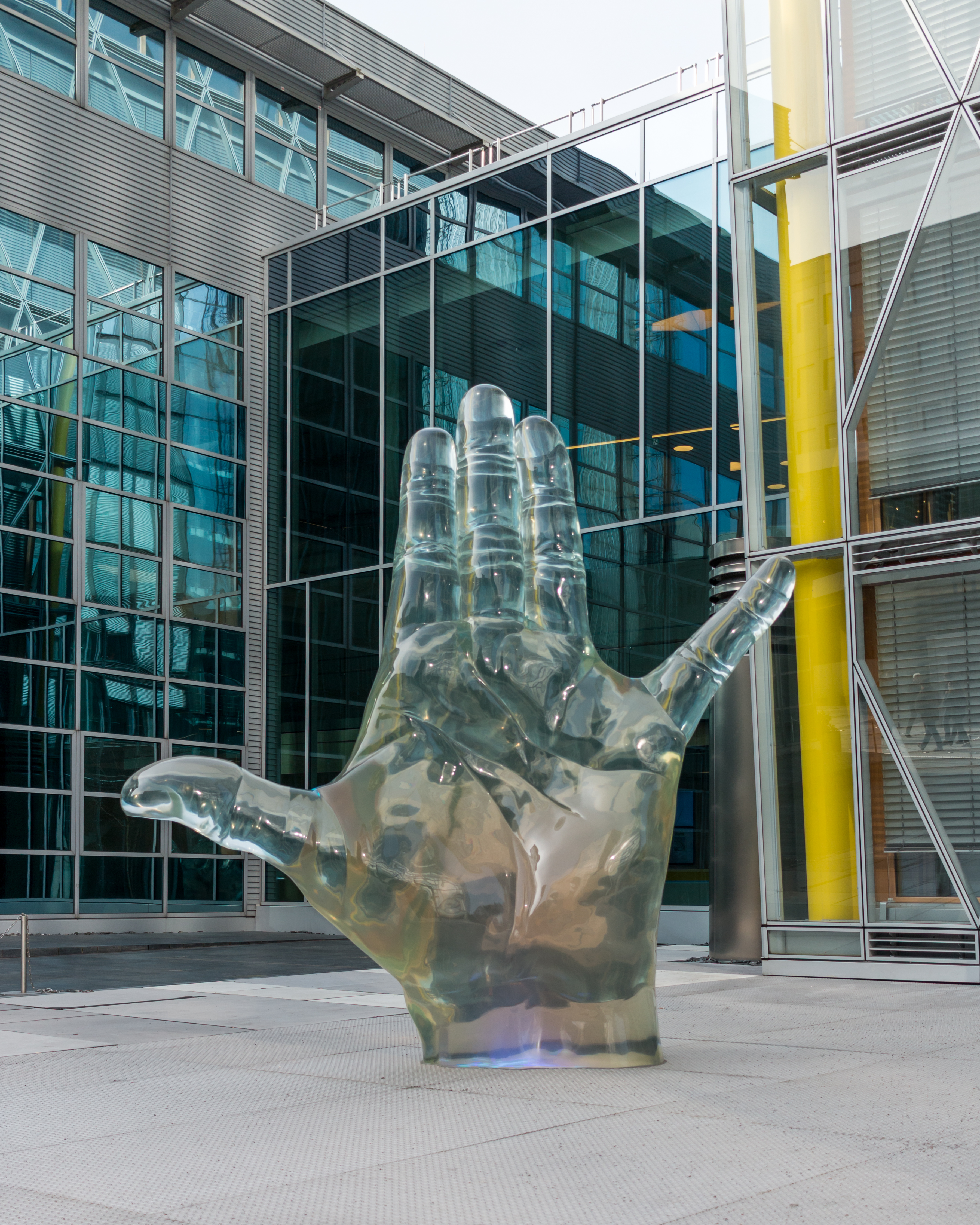 Sculpture “Body and Soul” (Duk-Kyu Ryang, 2015) in front of the office building of the LVM, Münster, North Rhine-Westphalia, Germany Sculpture TitleKörper und SeeleArtistDuk-Kyu RyangDate2015